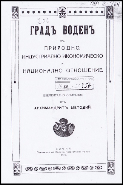 City of Voden book by Methodius Dimov